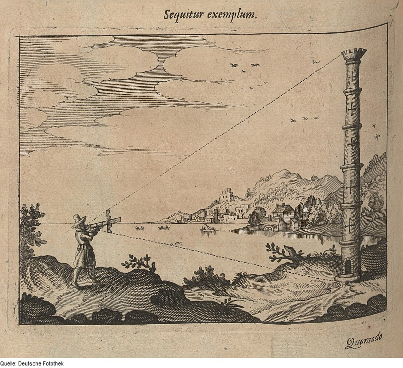 Original image description from the Deutsche Fotothek Geometrie & Mathematik & Vermessung & Jakobsstab & Turm